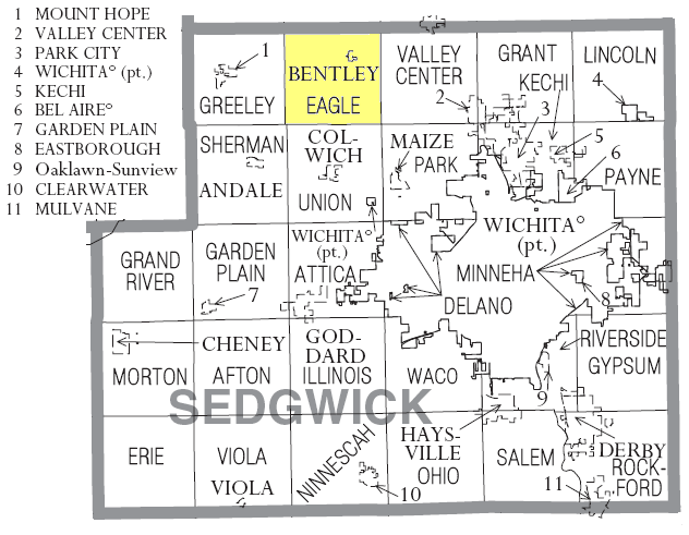 Map of Sedgwick County, Kansas highlighting Eagle Township